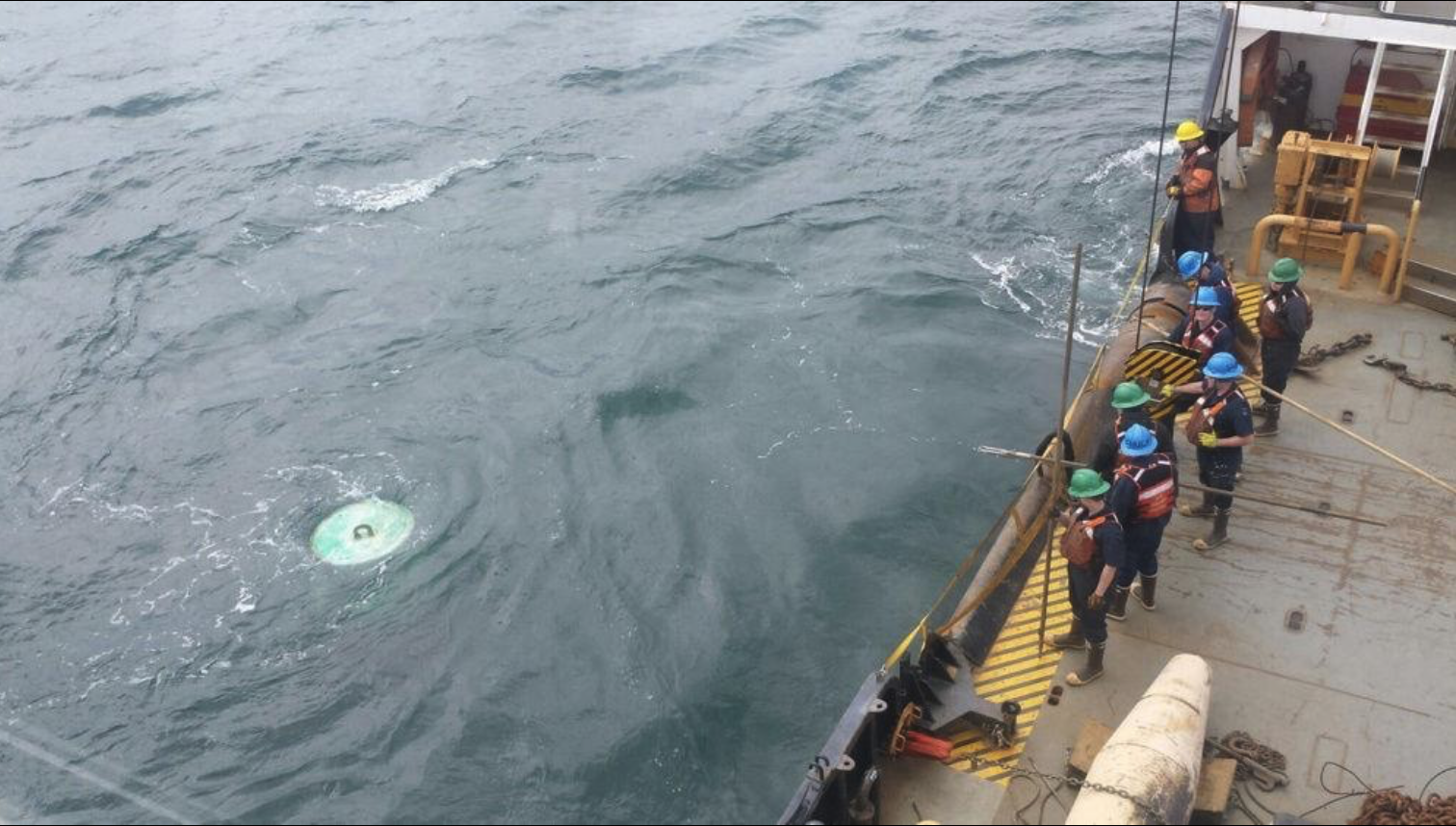 USCGC Ida Lewis recovers a sunken buoy off Block Island, Rhode Island 0n April 24, 2017